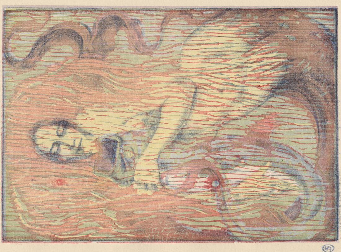 Spielendes Meerweib, lithography & engraving mix techniques by Henri Héran (aka Paul Herrmann), published in Pan, 1897-1898, issue 4, page 242.